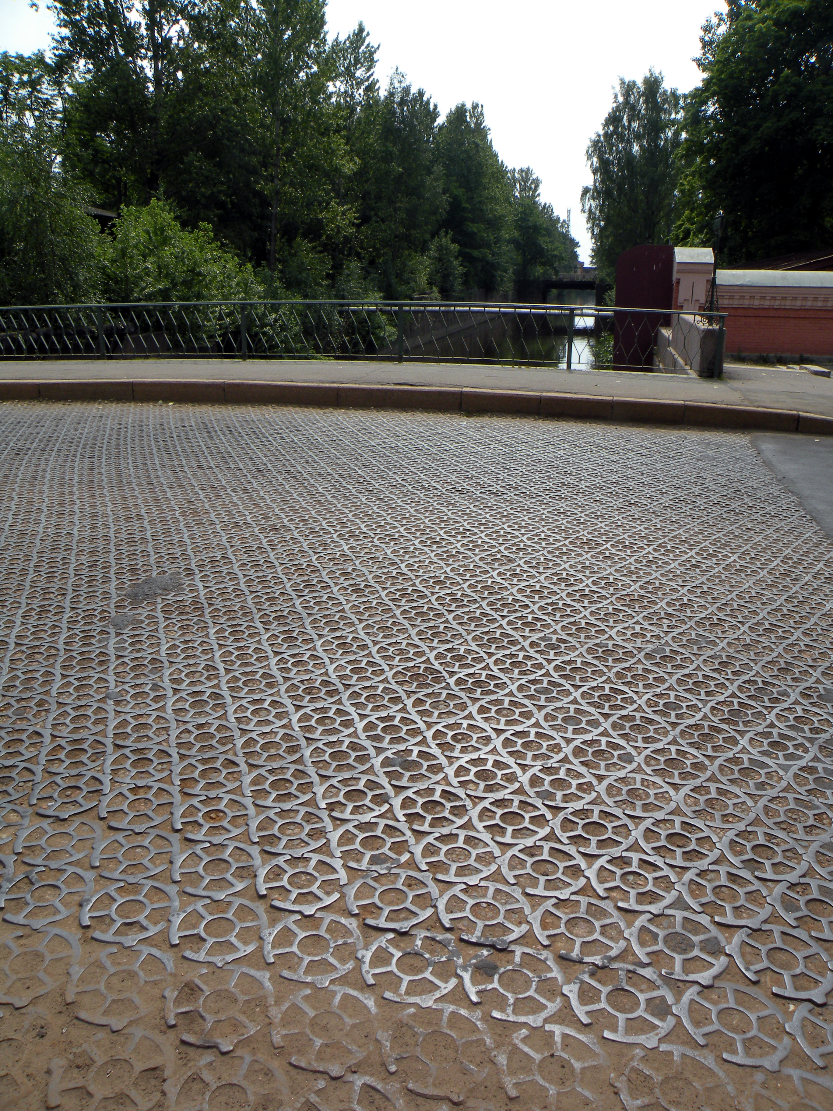 Permeable pavement - St-Petersburg.